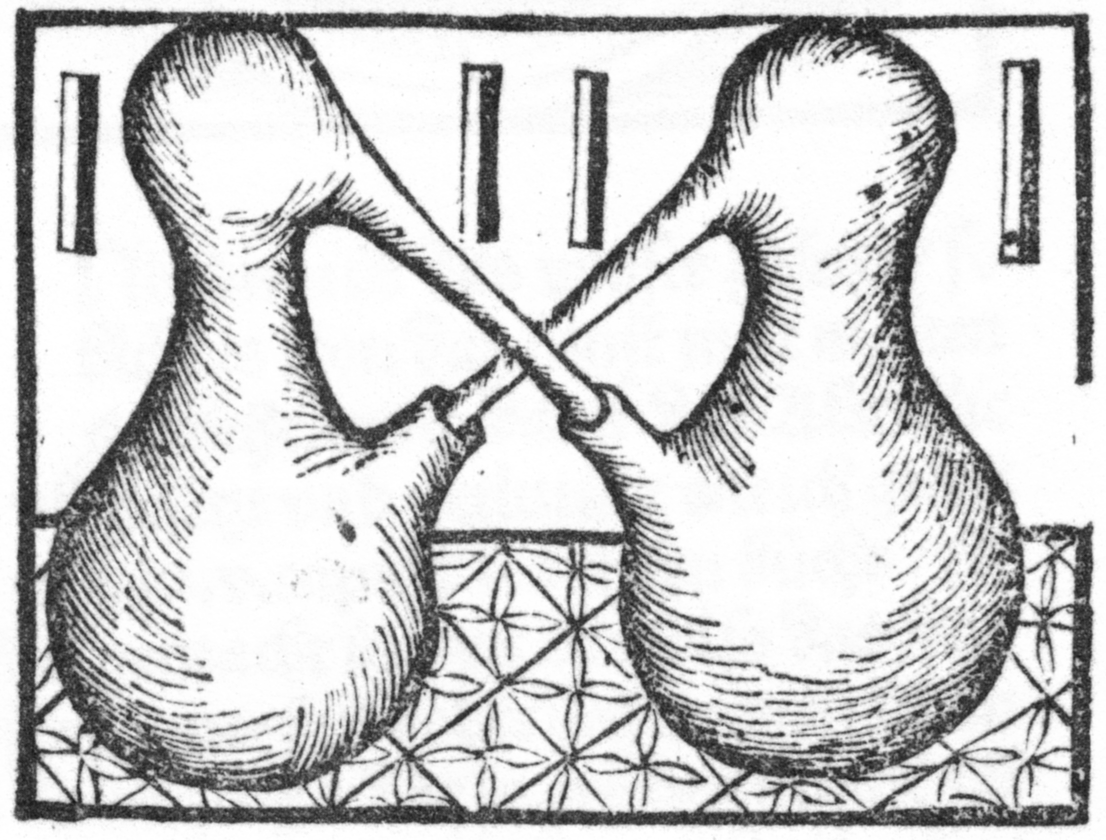 Picture of "pelican". Instrument for "distillation".